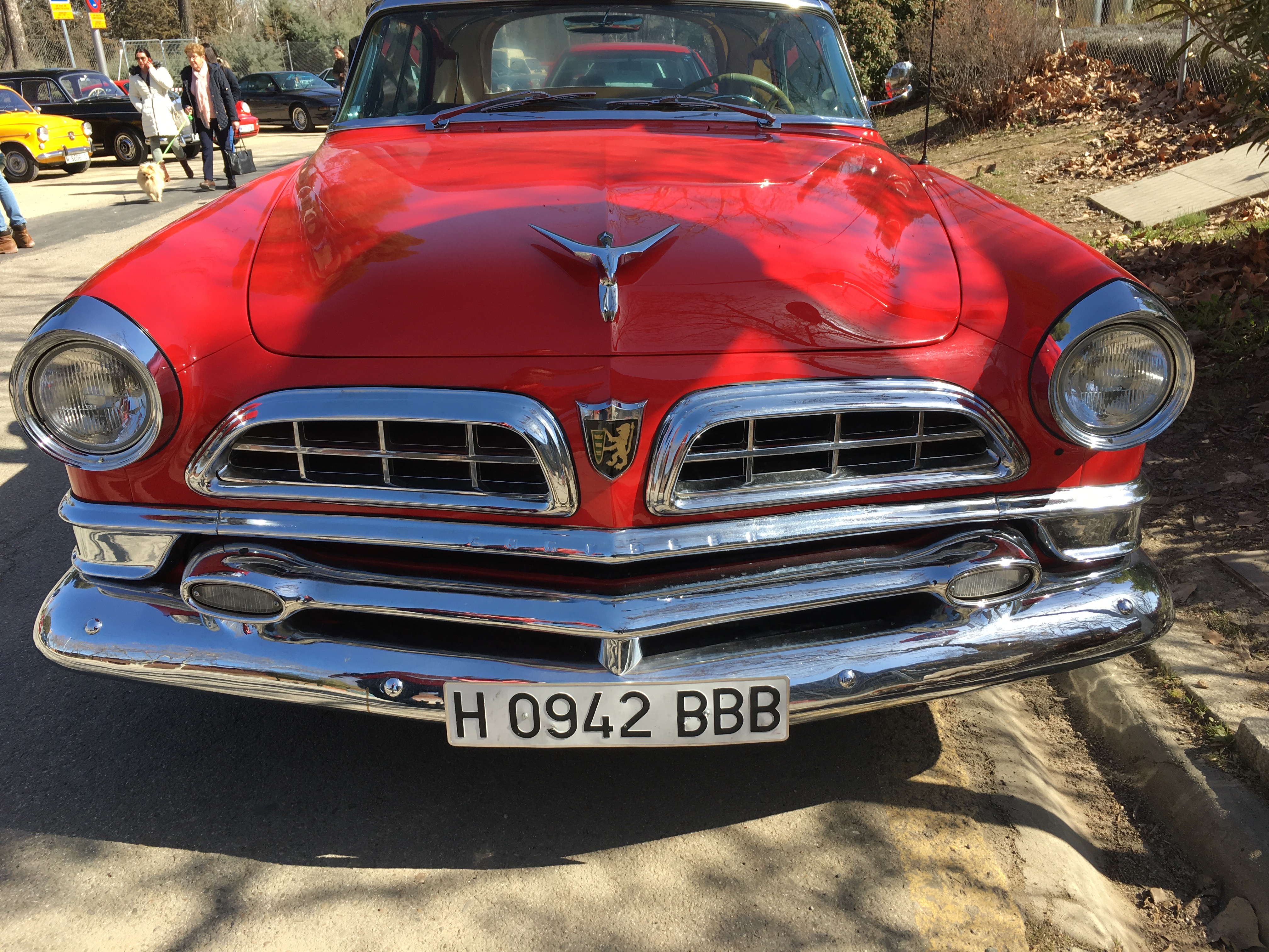 at Classic Auto Madrid 2019